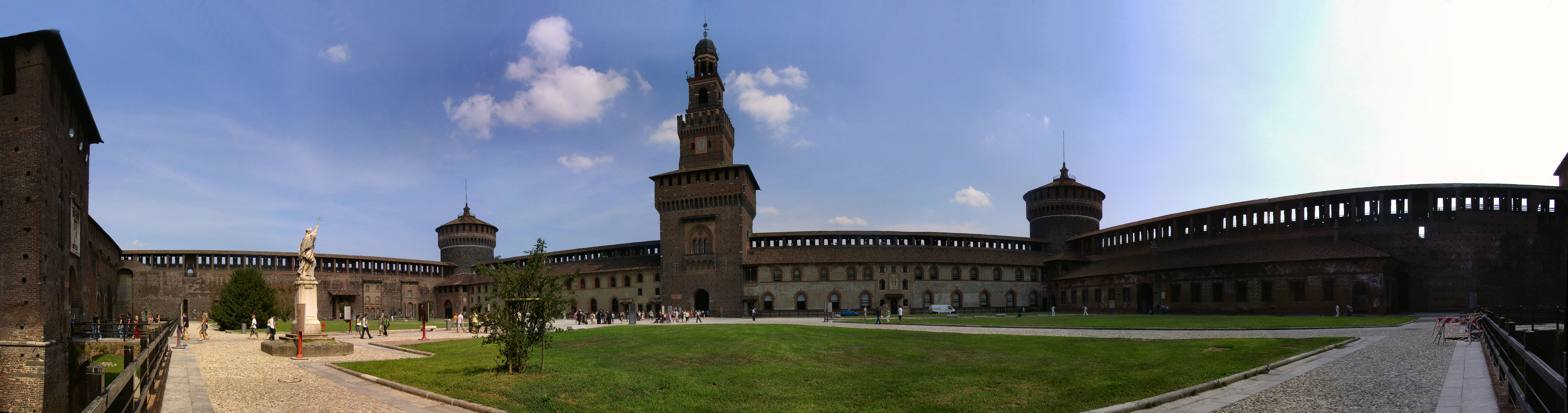 180° panoramic photograph of the main courtyard of Castello Sforzesco in Milan, taken from the middle of the north western edge.